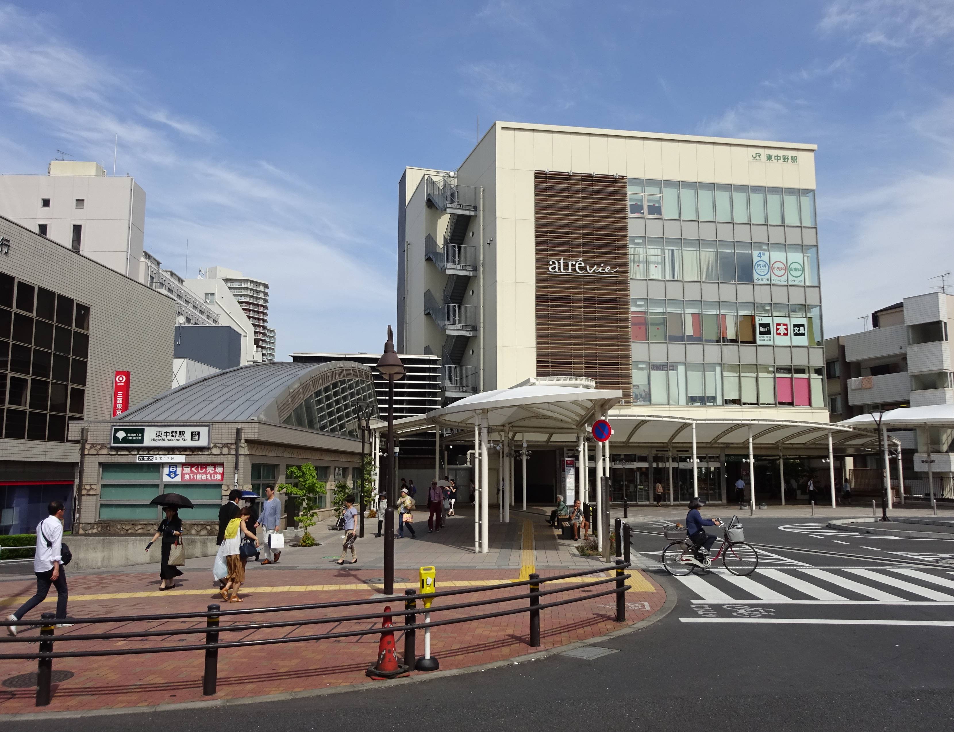 West entrance of Higashi-Nakano Station